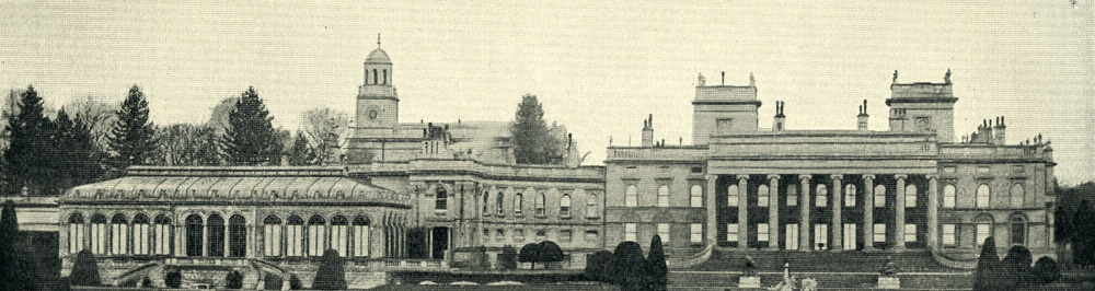 Witley Court circa 1900 before the fire